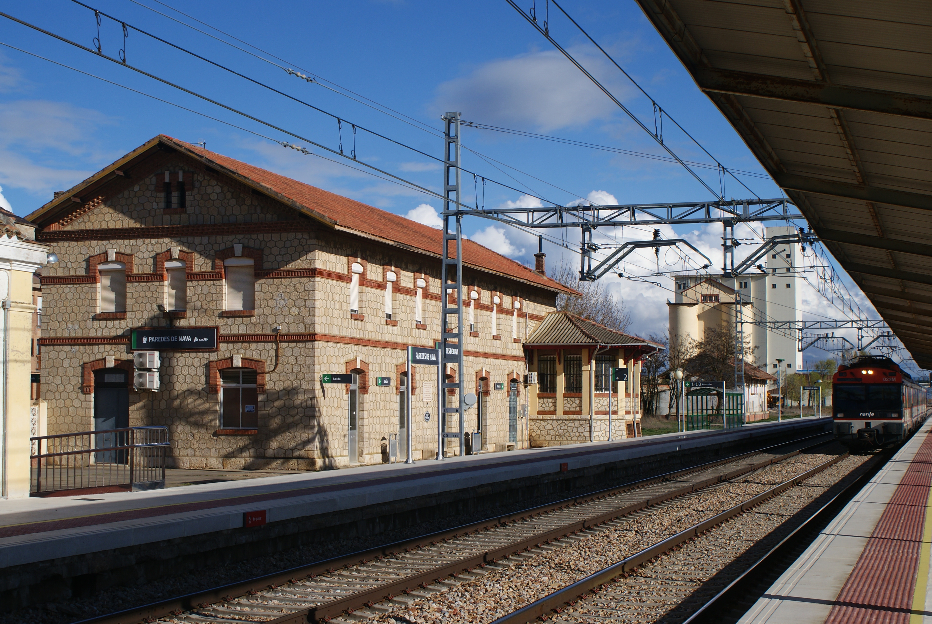 Train station of Paredes de Nava, province of Palencia, Spain.